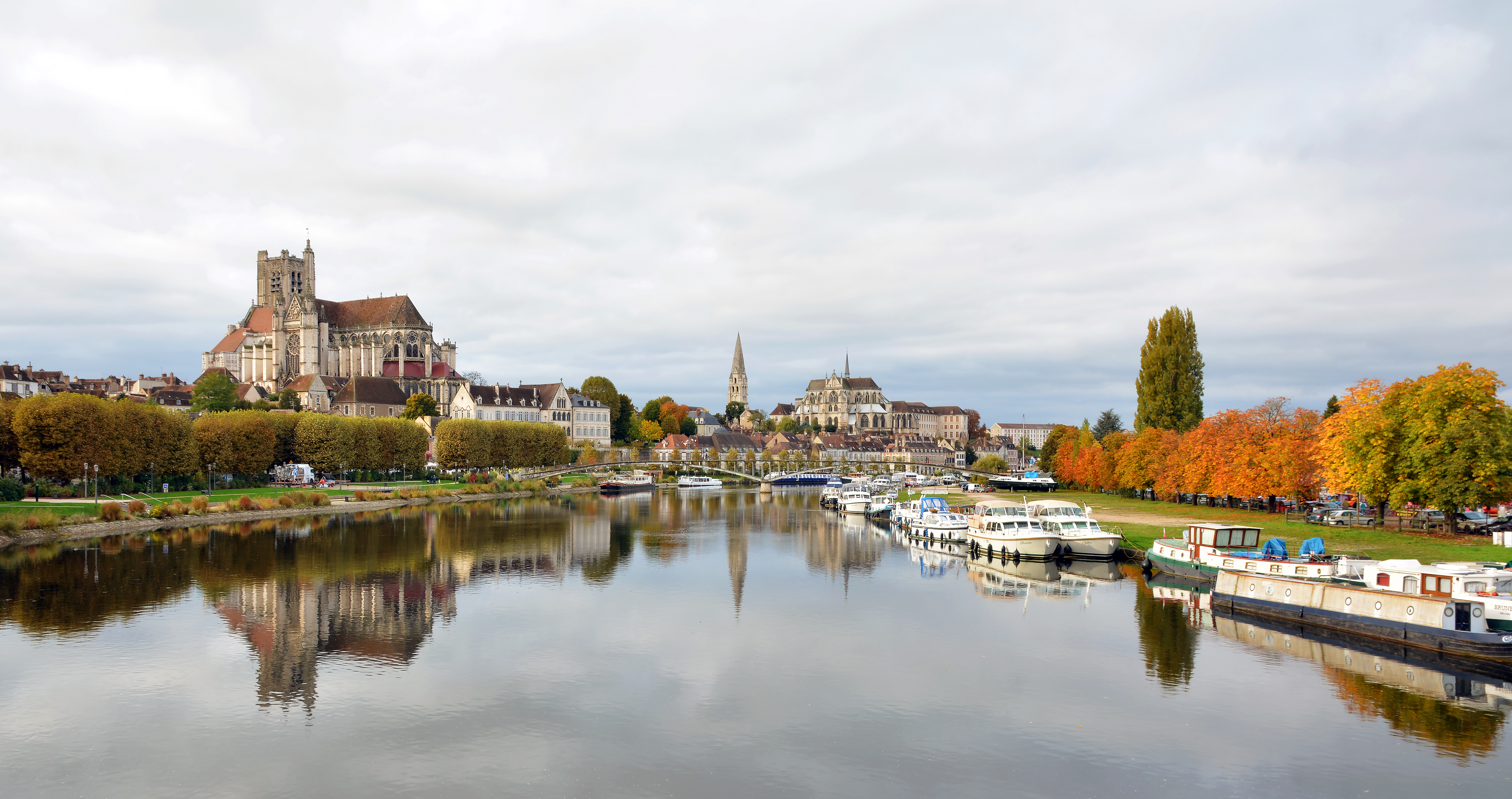 Panorama of Auxerre